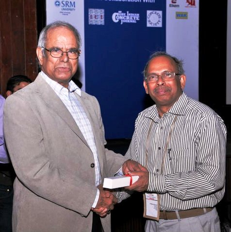 Pro.R.K.Dhir and Prof.B.Bhattacharjee at UKIERI Concrete Congress 2011